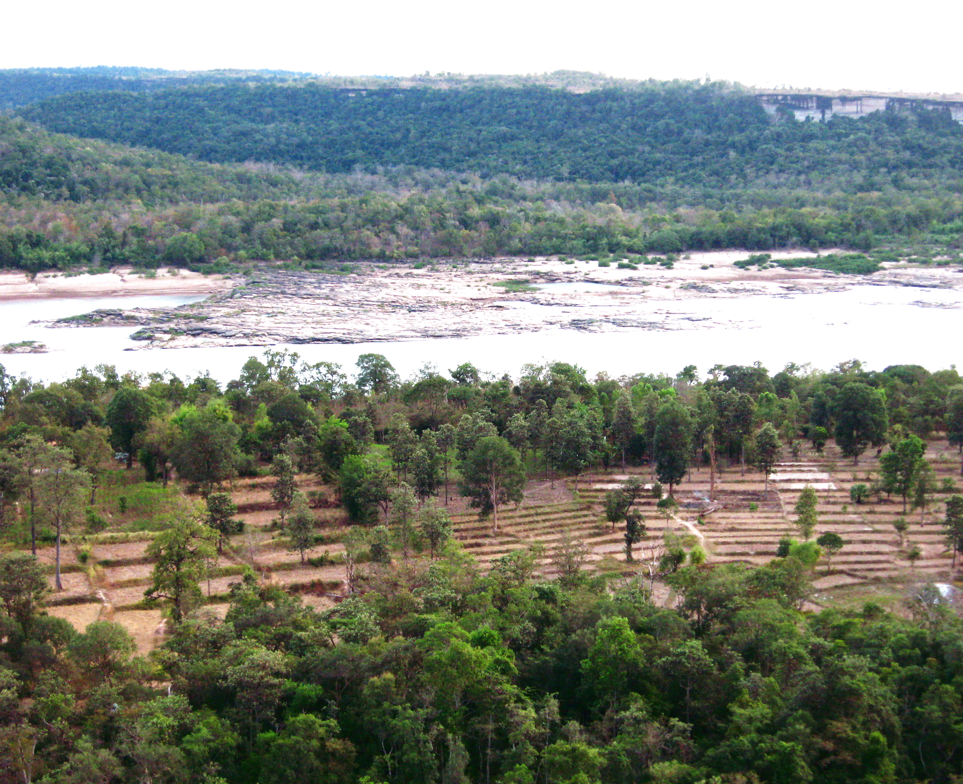 Viewing Laos from Thailand